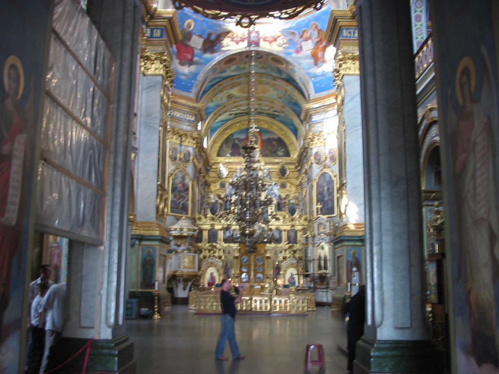 Pochayiv monastery, Ternopil oblast, western Ukraine.